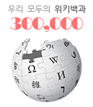 the decorated Wikipedia logo for KO wikipedia's 300000th article celebration